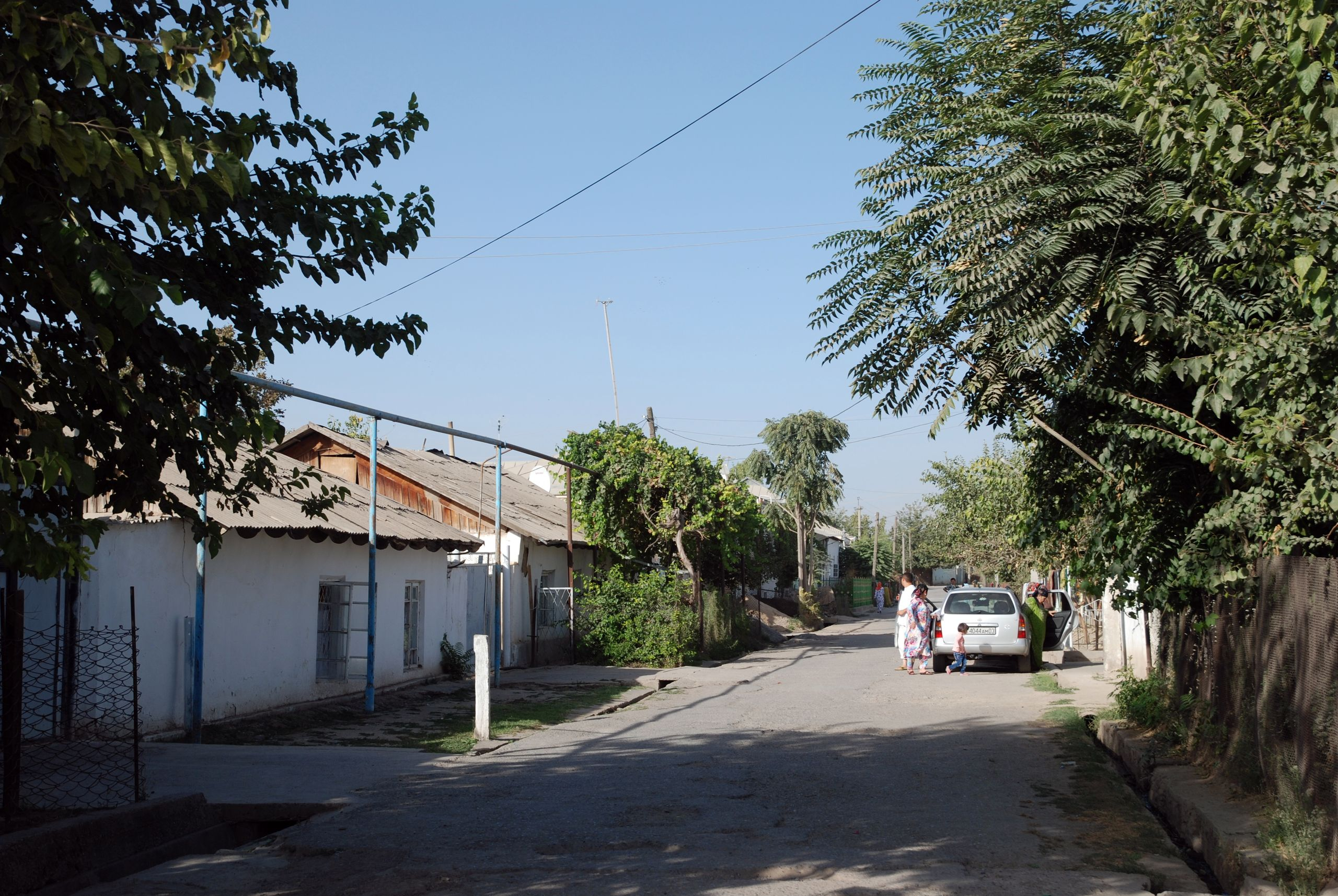 Kulob, west of Somoni street